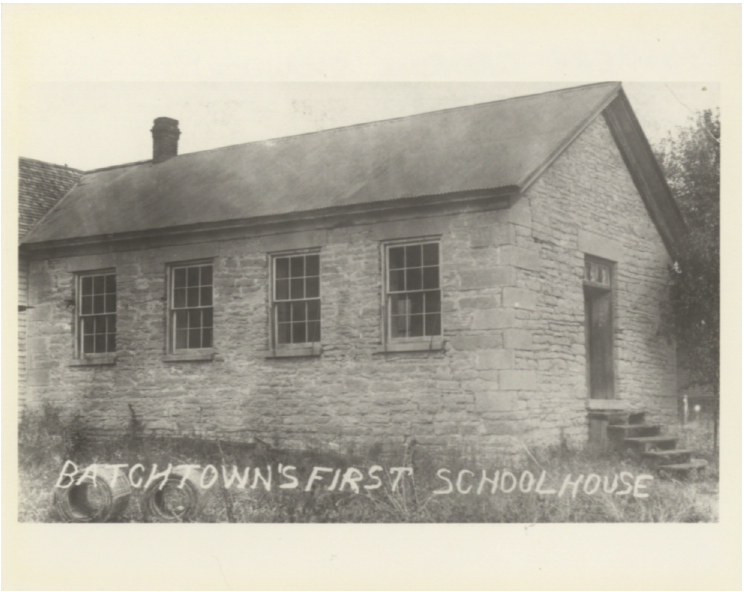 Batchtown School